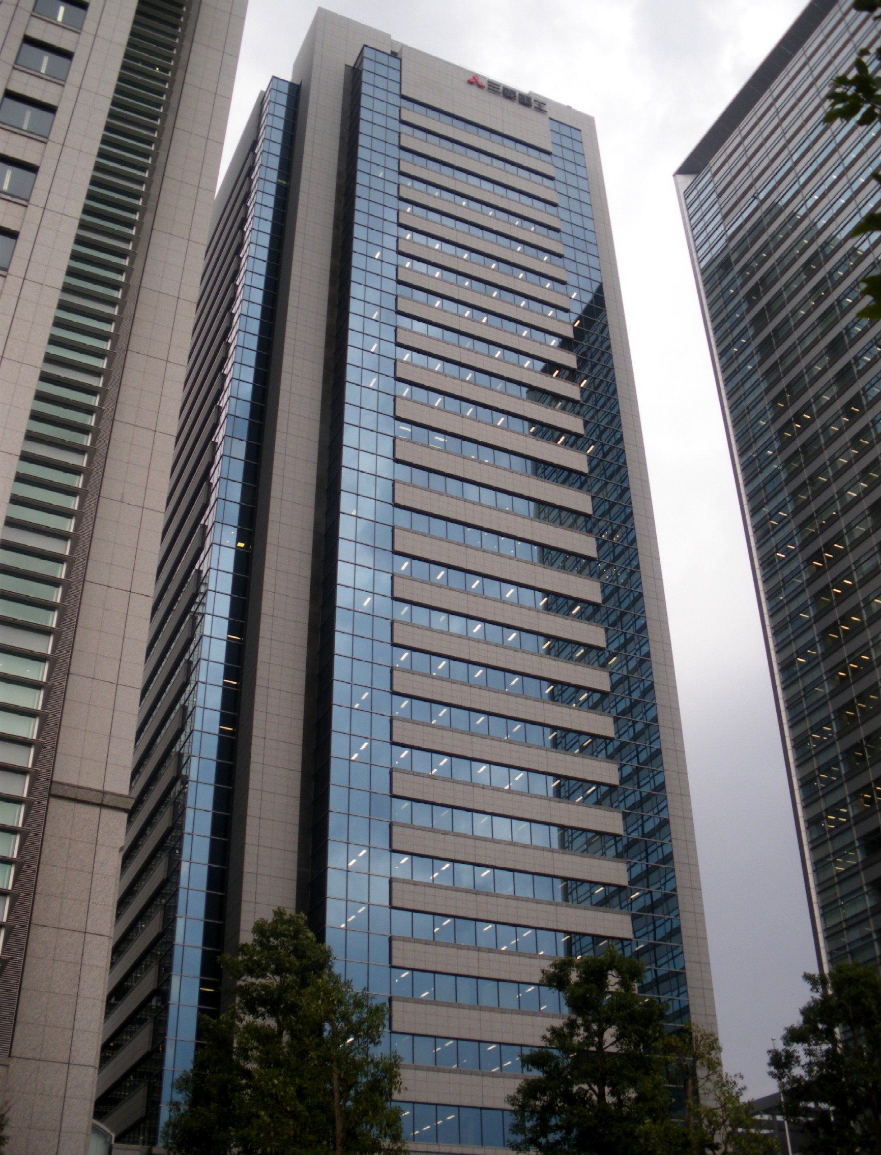 A photo of Mitsubishi Heavy Industries Building at Shinagawa Grandcommons, Konan, Minato-ku, Tokyo, Japan.